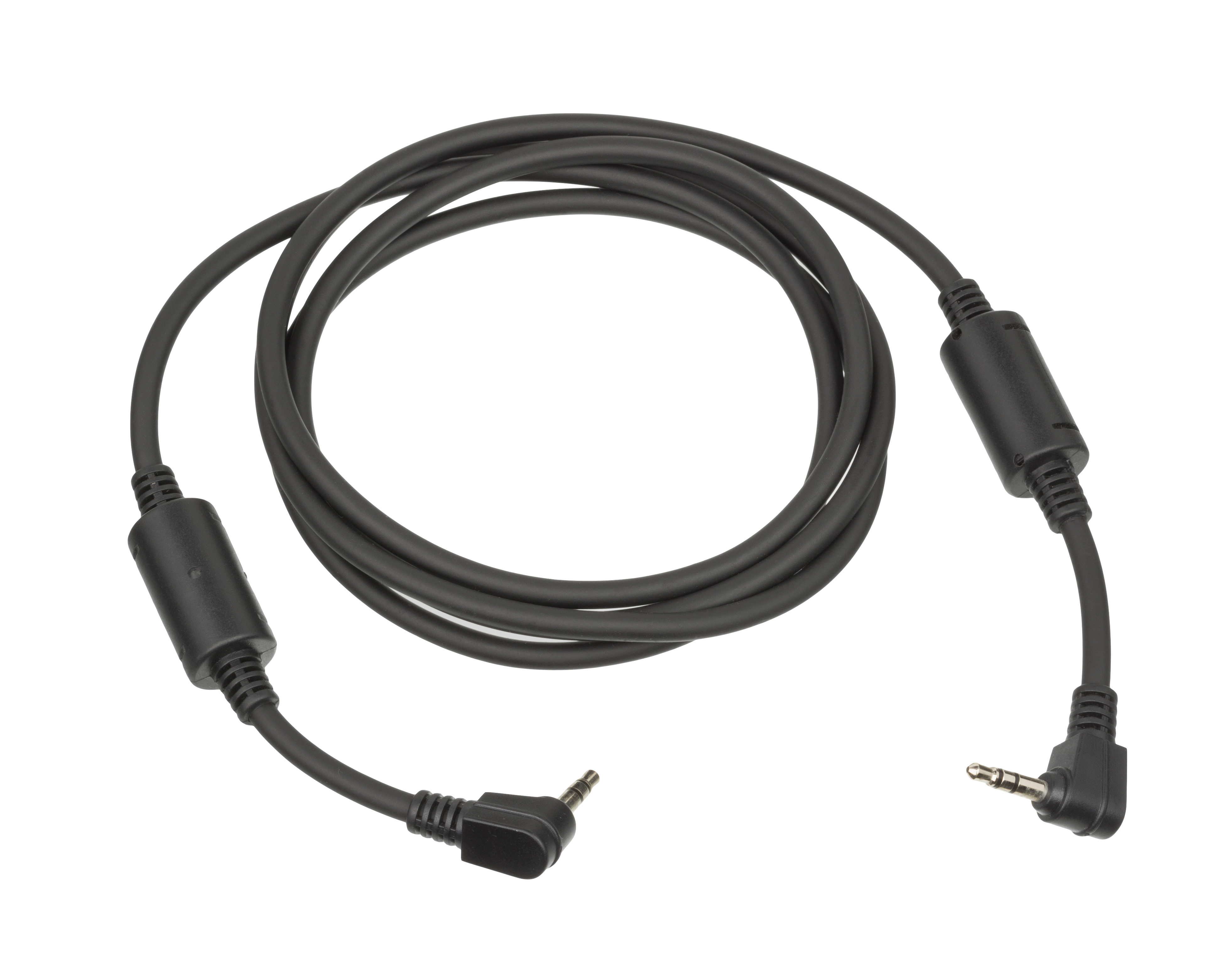 The COM link cable for the TurboExpress, a portable variant of the TurboGrafx-16 video game console that was released in 1990. This COM link cable was used for head-to-head play in select titles.